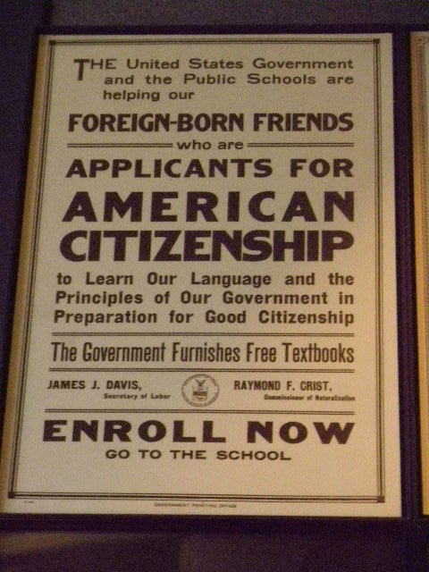 Statue of Liberty National Monument, Ellis Island and Liberty Island